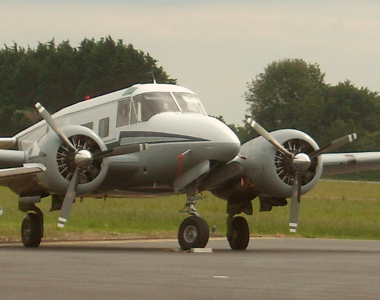 Front view of a Beech H18 with tricycle undercarriage. Taken at Lannion airport, France, 2008-08-23.